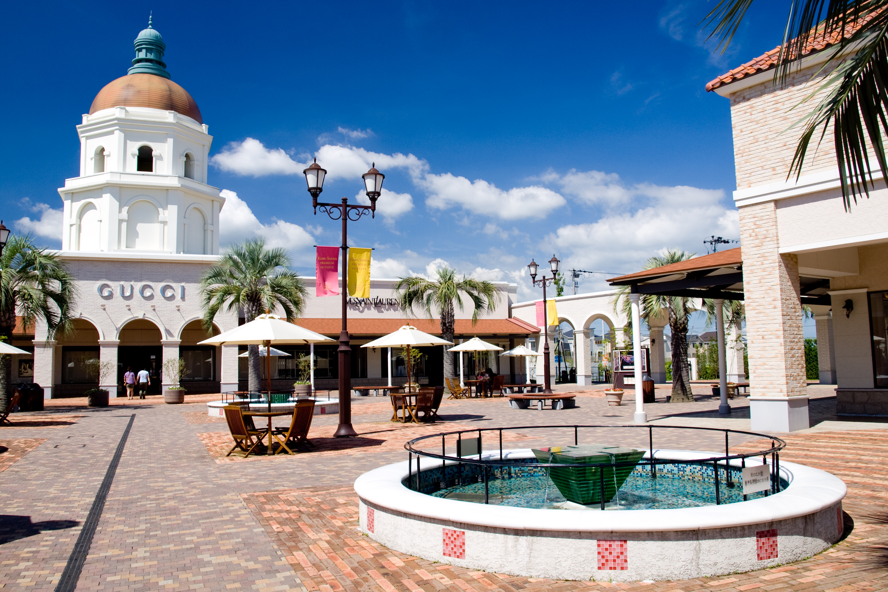 Kobe-Sanda Premium Outlets in Kobe, Hyogo Prefecture, Japan.